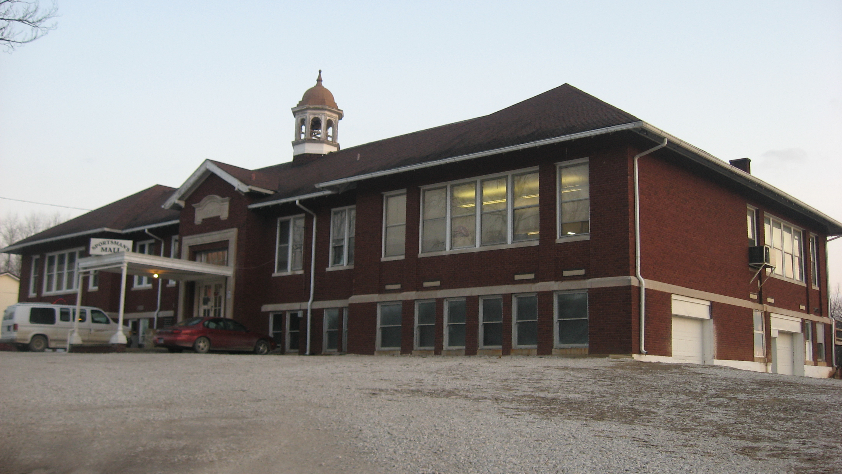 Front and western end of the former Jefferson Elementary School, located on the southern side of E150S about ¼ mile east of State Road 57 south of Washington in Washington Township, Daviess County, Indiana, United States. Built in 1924, it is listed on the National Register of Historic Places.